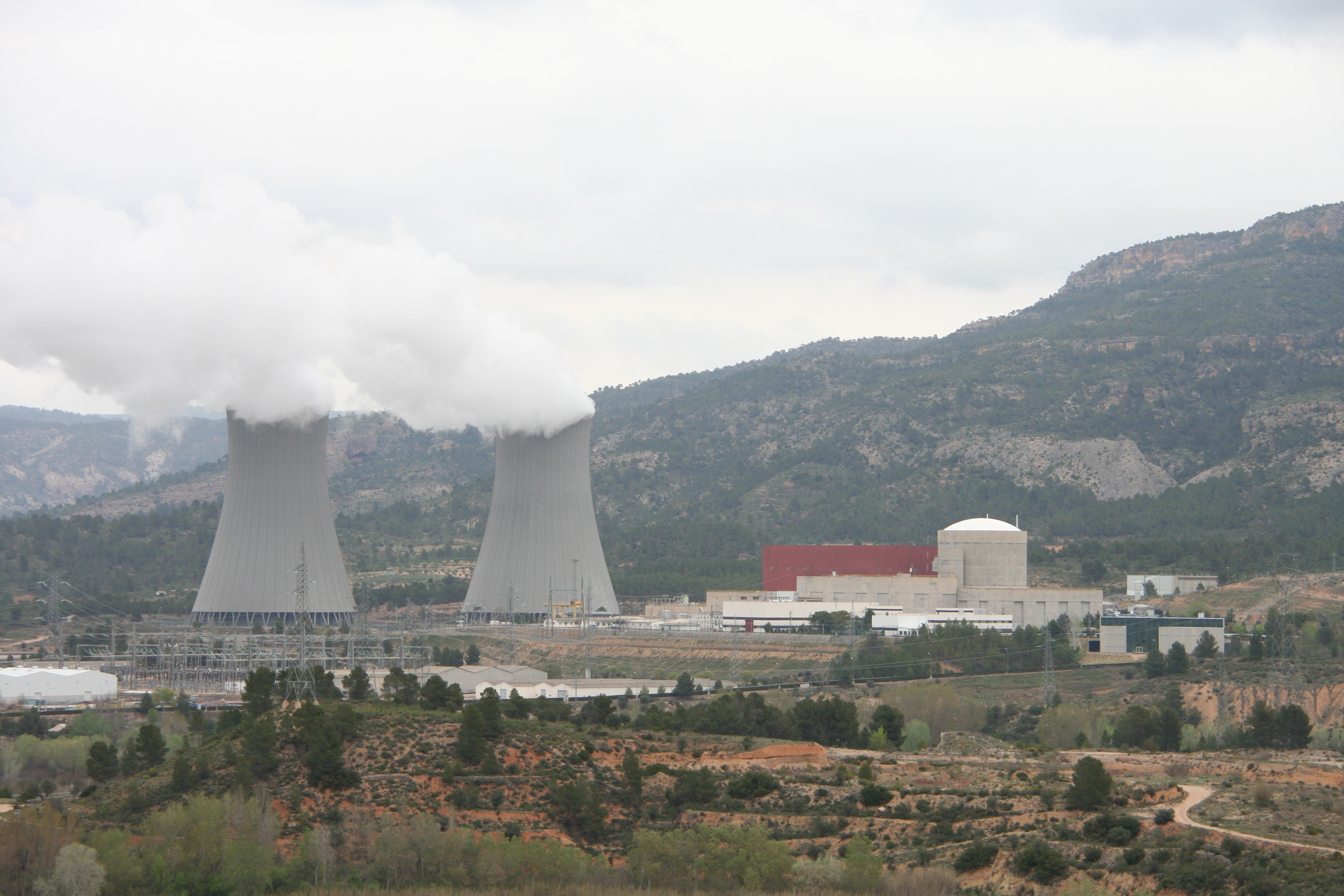 Cofrentes nuclear power plant